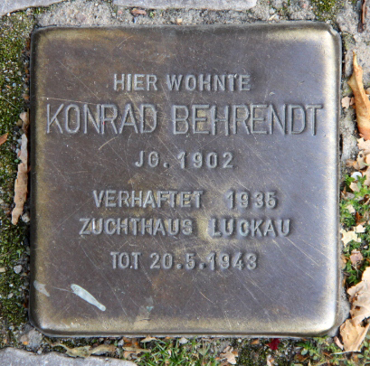 "Stolperstein" (stumbling block), Konrad Behrendt, Hussitenstraße 7, Berlin-Gesundbrunnen, Germany